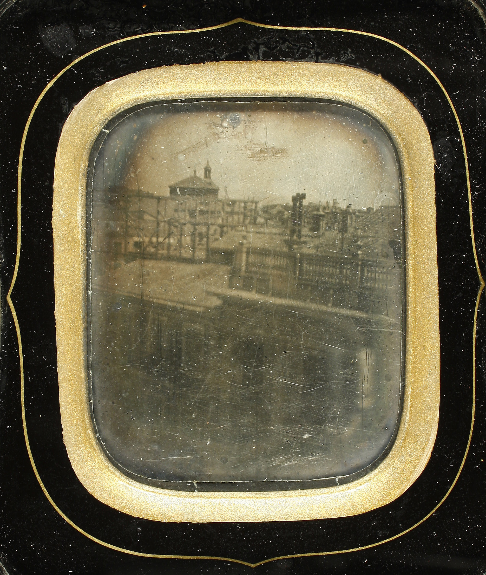 Daguerreotype of Madrid, circa 1854, by an unknown photographer. The image is in the public domain.